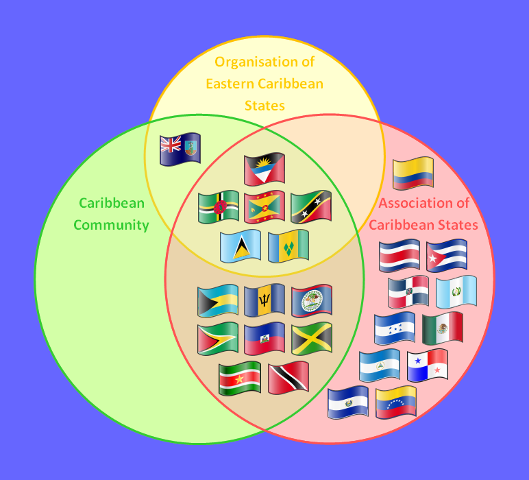 A Venn diagram depicting the relations between the ACS, CARICOM, and OECS countries.